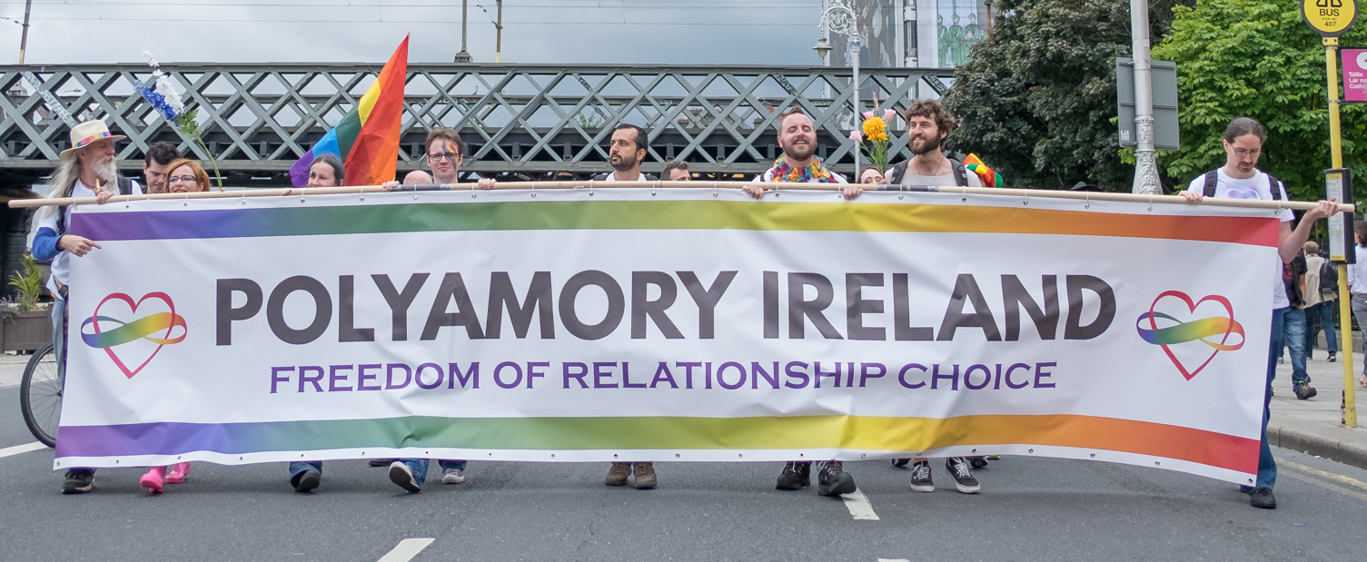 If you like my pictures please support me buying a print from my shop thanks! You can follow me on